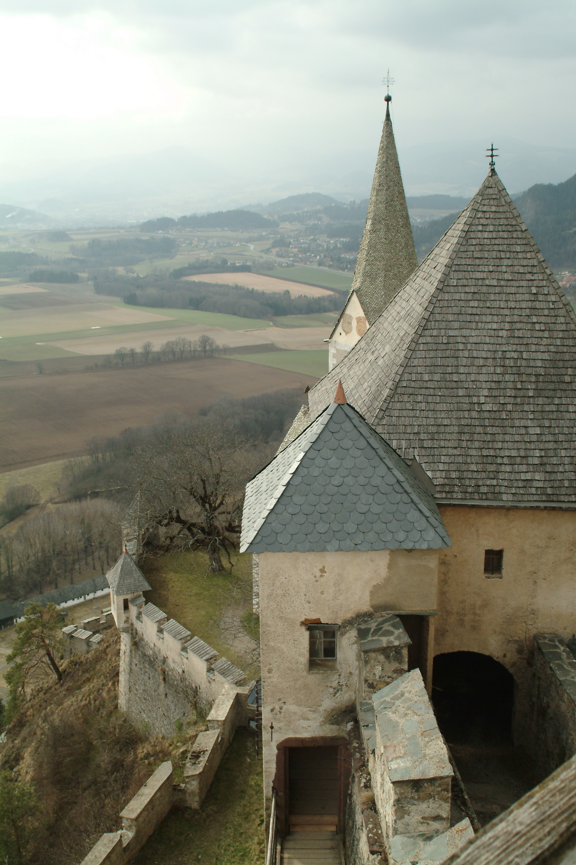 View Northwest from the top of the Hochosterwitz Castle